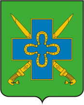 Staromyshastovskoe (Krasnodar krai), coat of arms